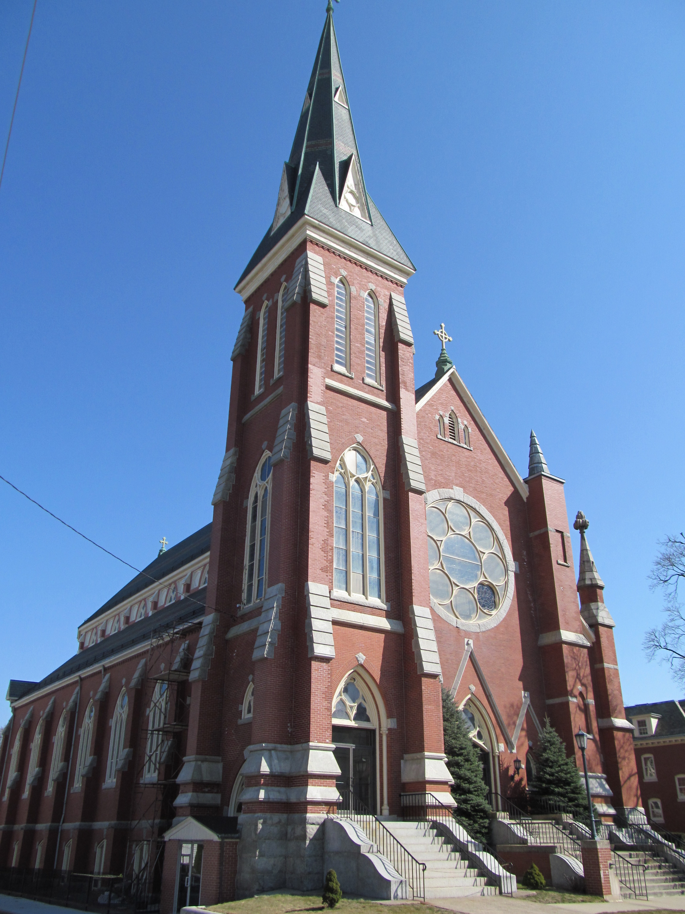 St. Marys Church of the Immaculate Conception, Pawtucket Rhode Island